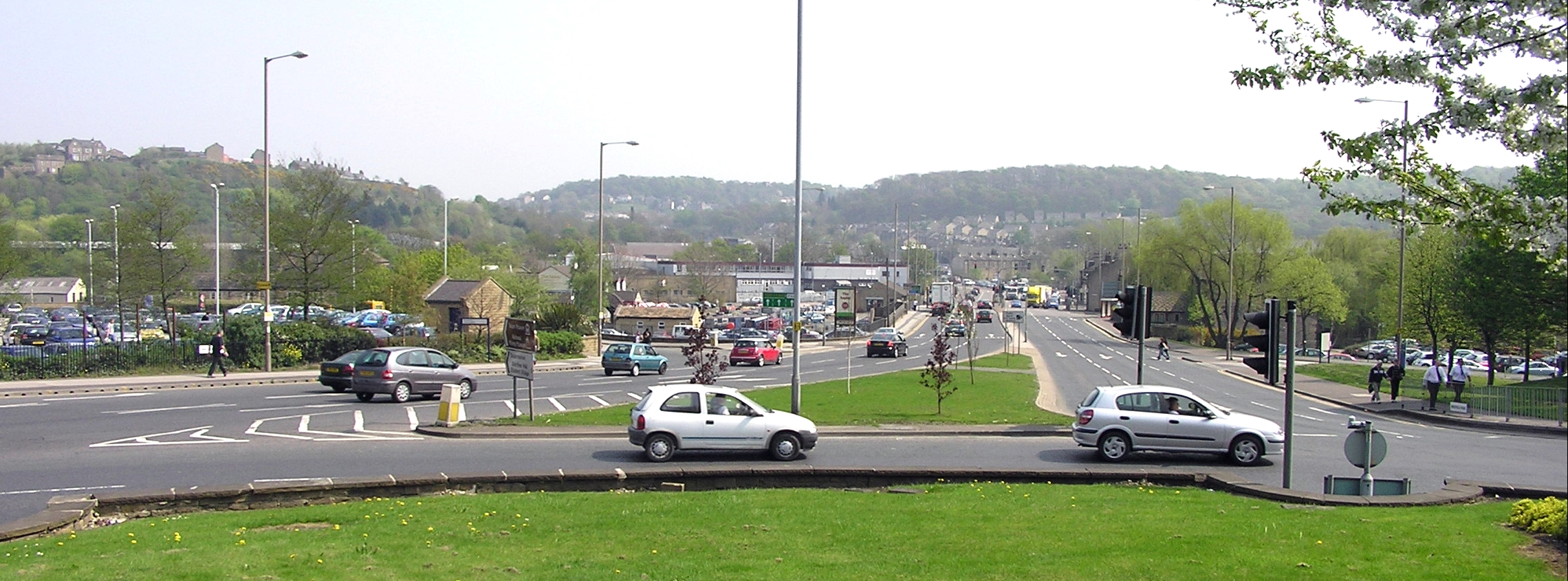 View of Aspley along Wakefield Road leading South from The Huddersfield Ringroad. The Marina is left of centre.